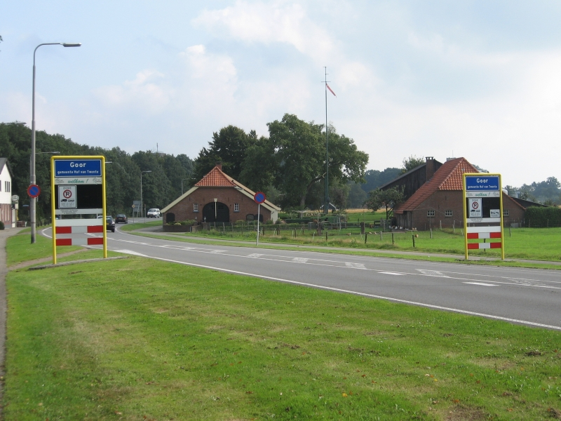 Dutch Provincial Road 753 near Goor.